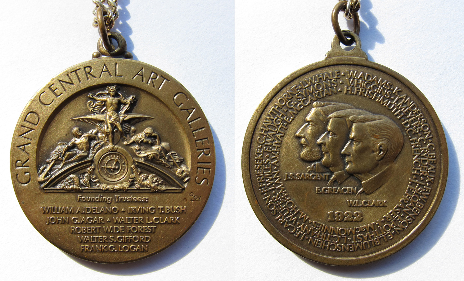 Medal commemorating the founding of the Grand Central Art Galleries in New York City, New York. The organization was in the sixth floor of Grand Central Terminal and operated from 1923 until the early 1990s. Shown on the right-hand side of the medal are founders John Singer Sargent, Edmund Greacen, and Walter Leighton Clark.